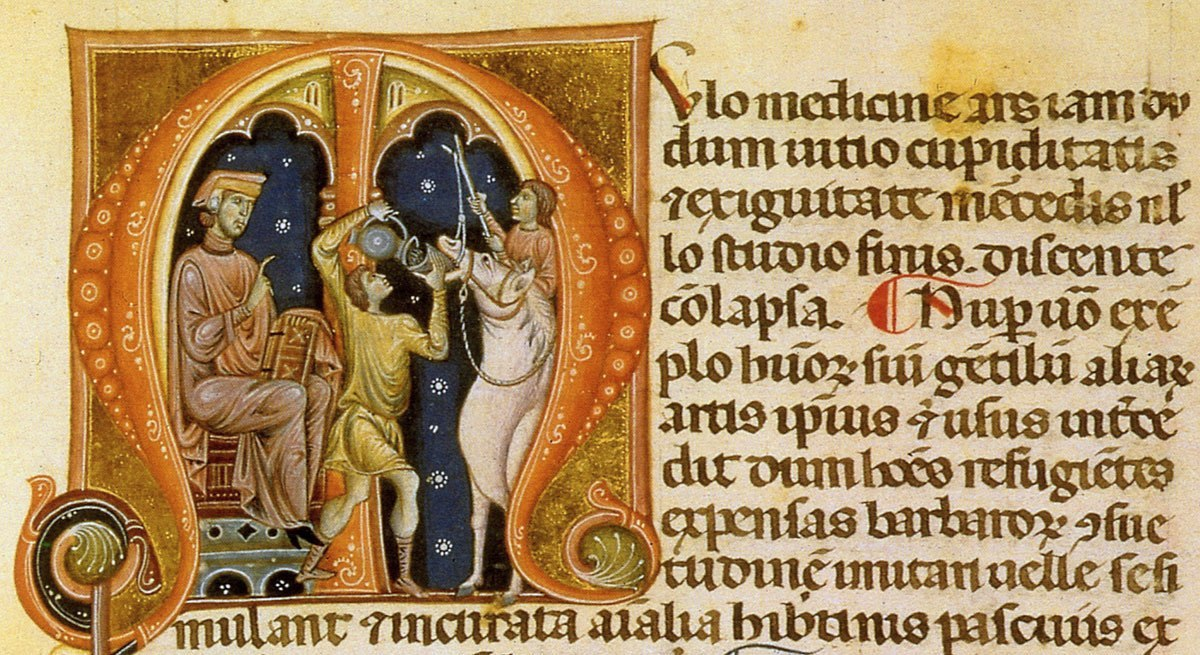 Miniature in Tractate of Mulomedicina, detail